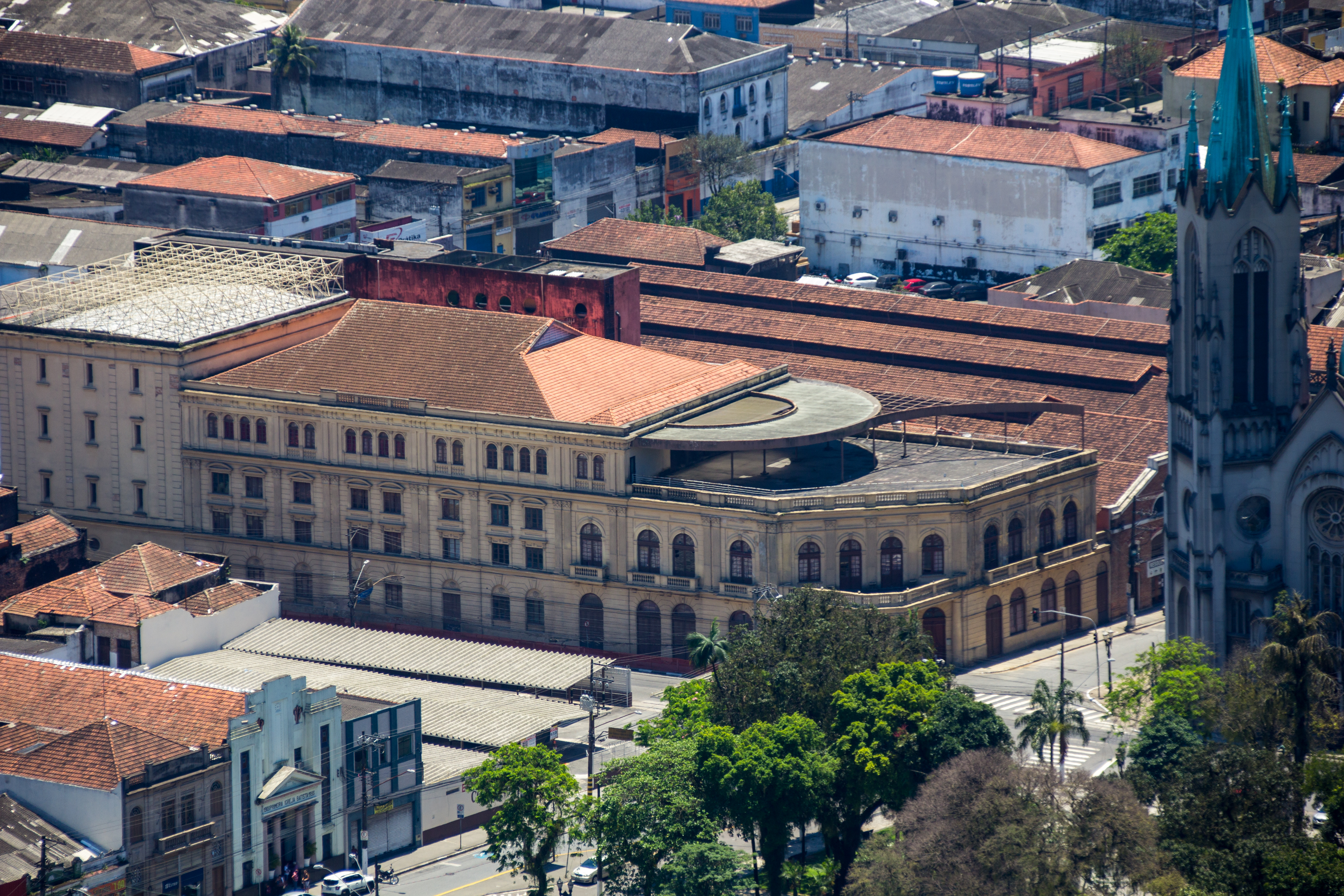 Santos, São Paulo, Brazil